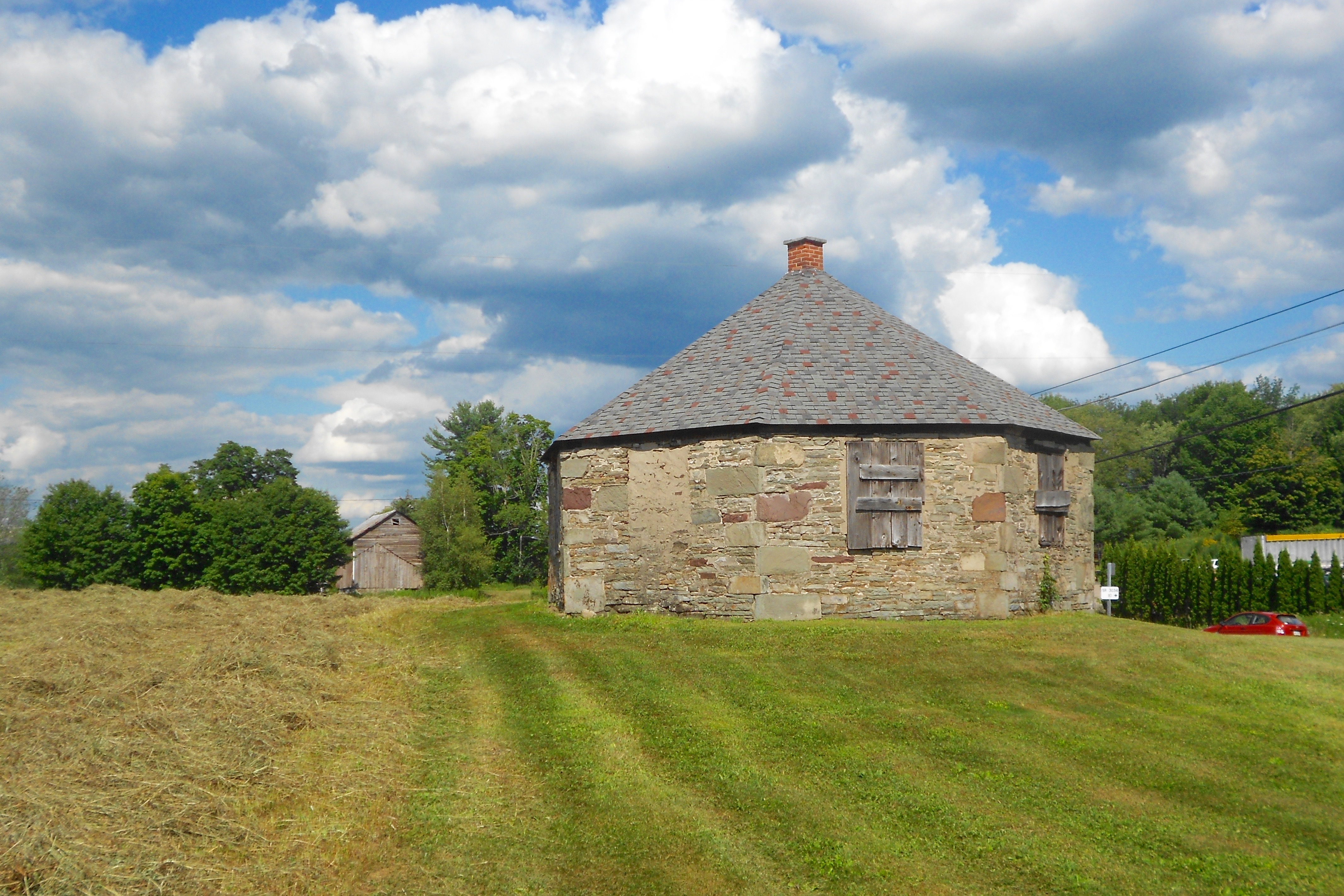 Octagon Stone Schoolhouse, listed on the NRHP on May 6, 1977 (#77001200). About 1 mile (1.6 km) southwest of South Canaan in South Canaan Township, Wayne County, Pennsylvania